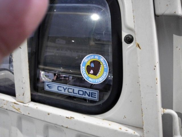 Stickers and logos related to Mitsubishi and the "Cyclone" engine. (Uploader states that this is from "my car".)